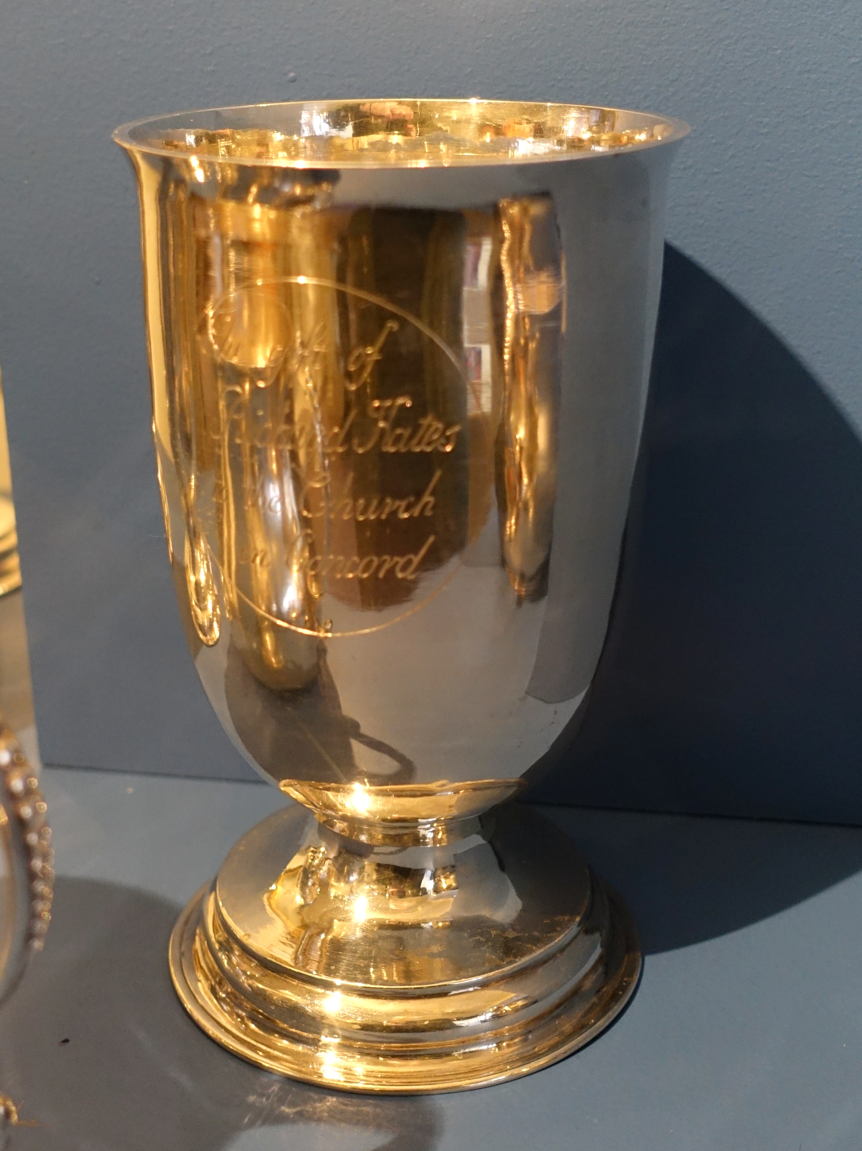 Exhibit in the Concord Museum, Concord, Massachusetts, USA.